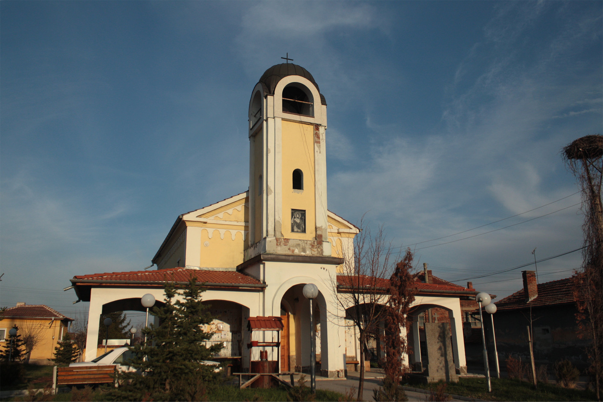 Theodore Stratelates Church in Dolni Bogrov, Bulgaria